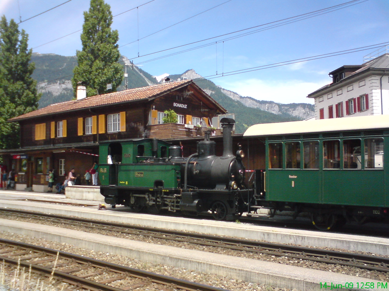 RhB G 3/4 during an extra tour at Bahnhoffest 2009 in Bonaduz. organised by "Verein Dampffreunde der RhB".